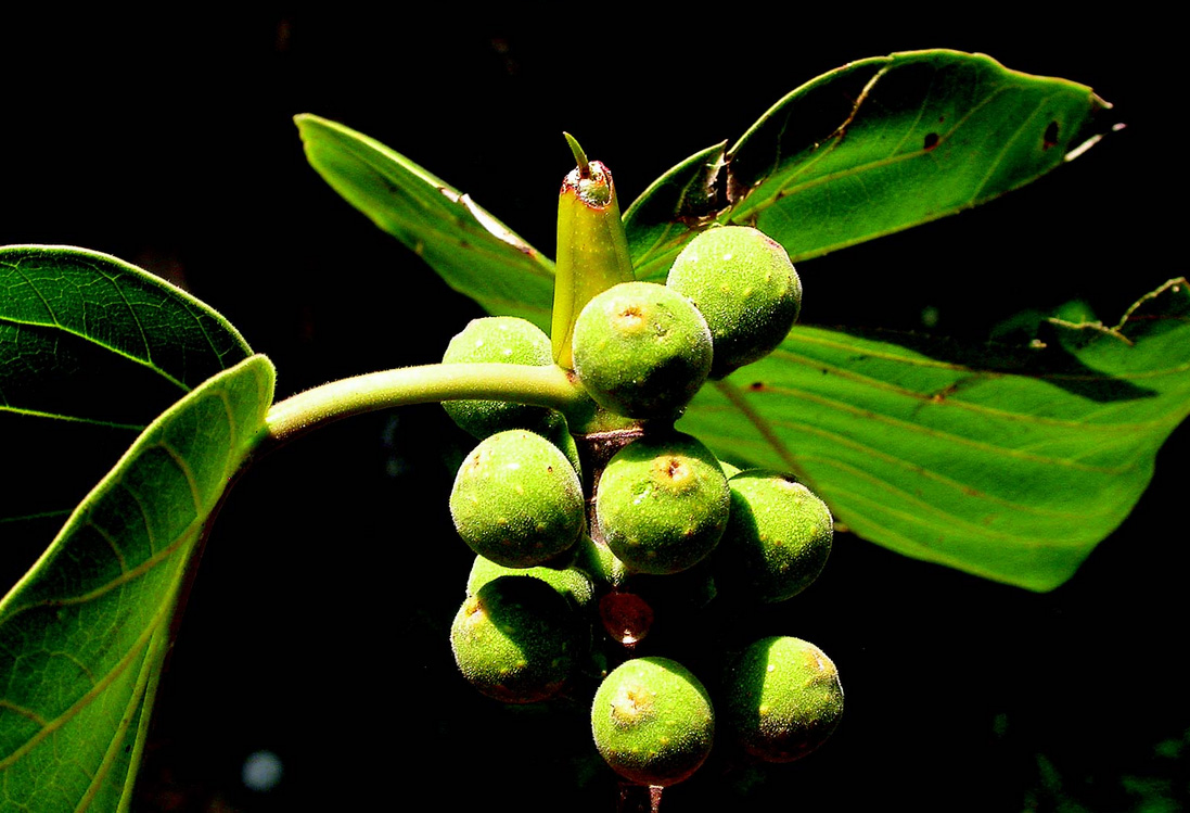 Ficus dalhousiae